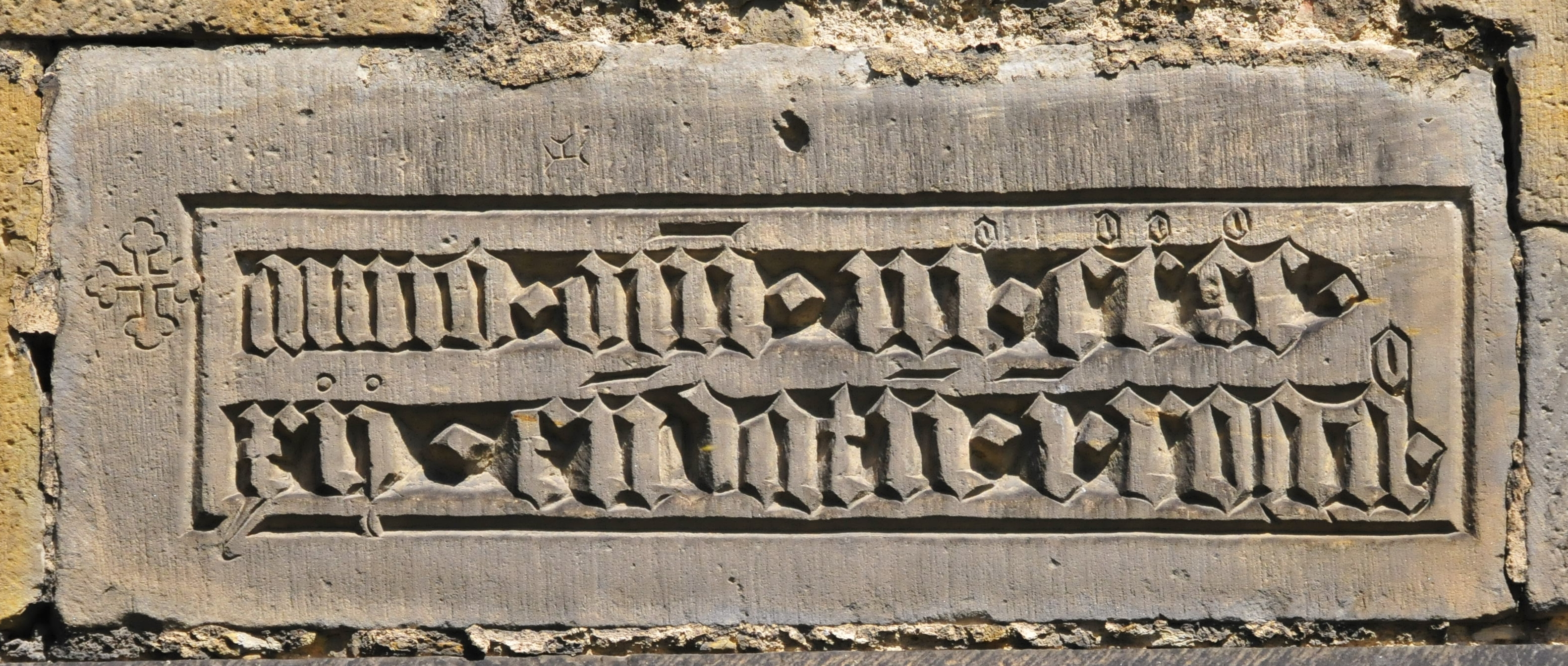 Bufleben, church, relief stone with building year